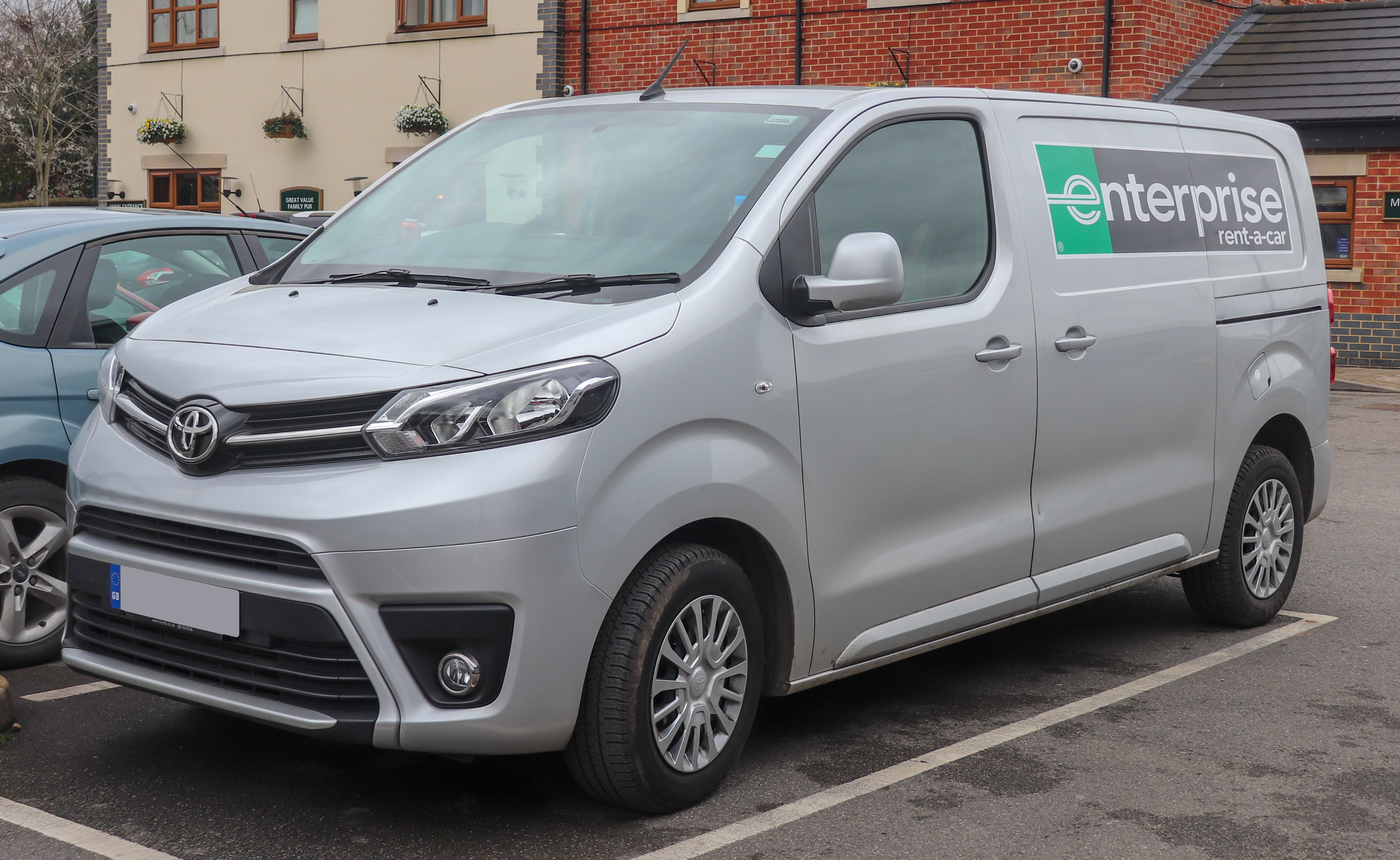 2018 Toyota Proace Comfort 2.0 Front Taken in Leamington Spa